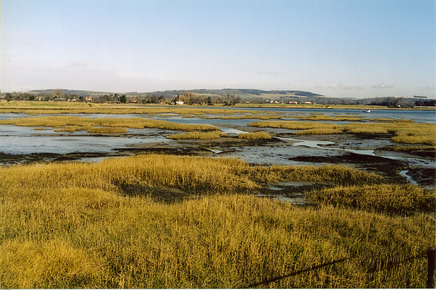 Salt-marsh East Chidham (Chichester Harbour, southern England), Salzwiese East Chidham (Chichester Harbour, südliches England)